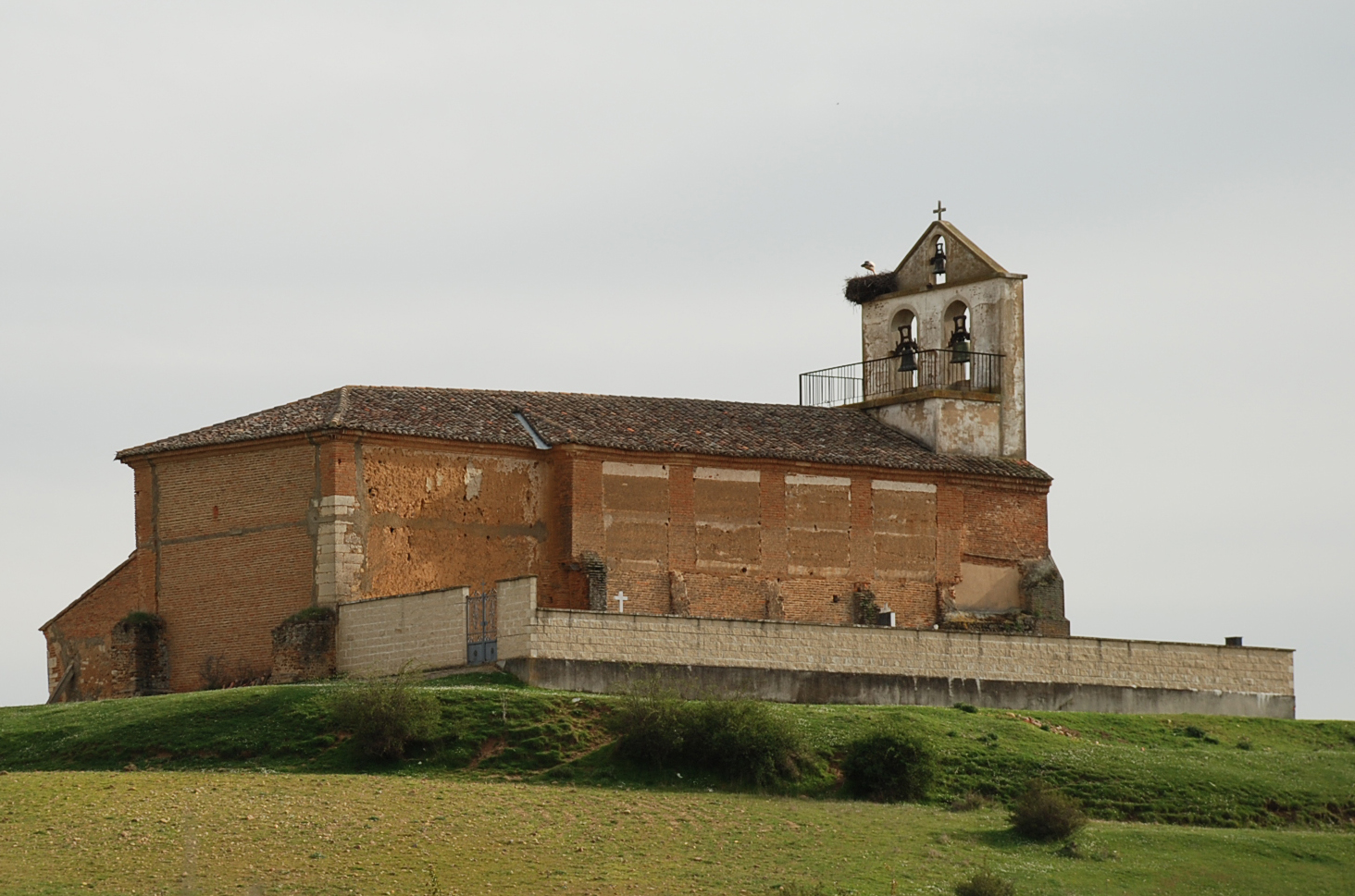 Church of Nuestra Señora de la Asunción in Villamelendro de Valdavia (Palencia, Castile and León)